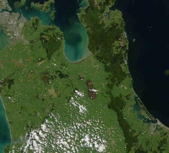 Section of North Island of New Zealand centred on the Hauraki Plains. Auckland is at the top left, Tauranga bottom right. The Kopuatai peat dome is the footprint-shaped brown area centre.